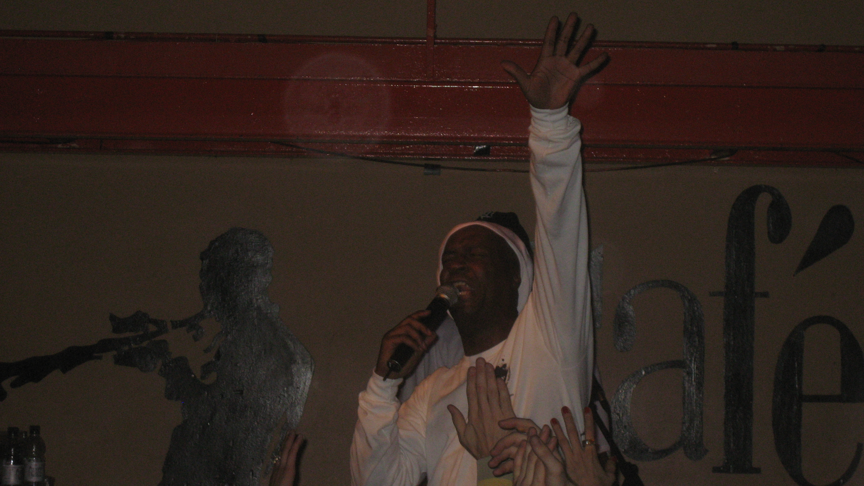 The american deejay Grandmaster Flash